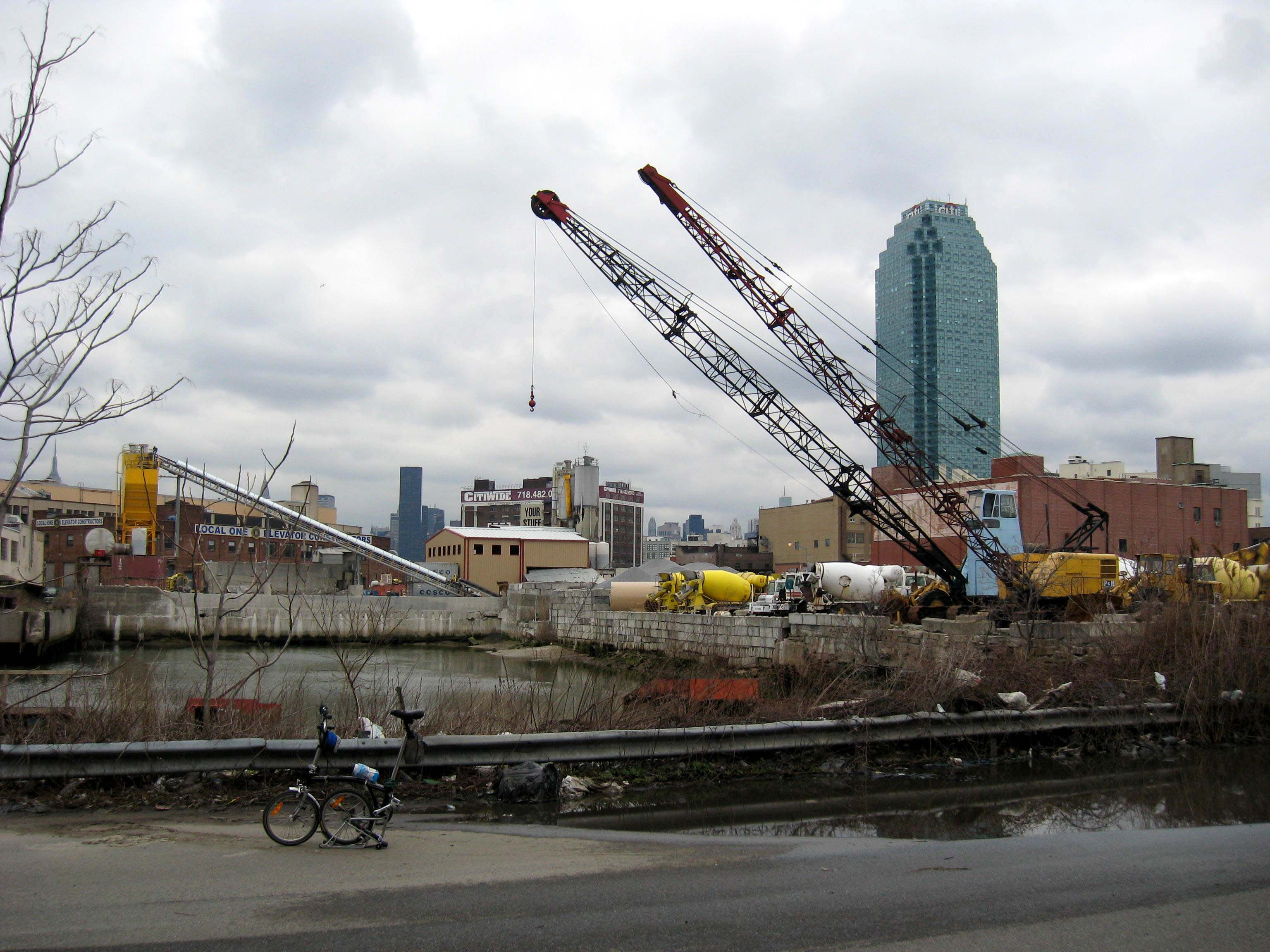 Harbor at north end of Dutch Kills, Queens. I took this photo looking northwest from the east side (left bank) of the Kill on a cloudy early afternoon in early spring.